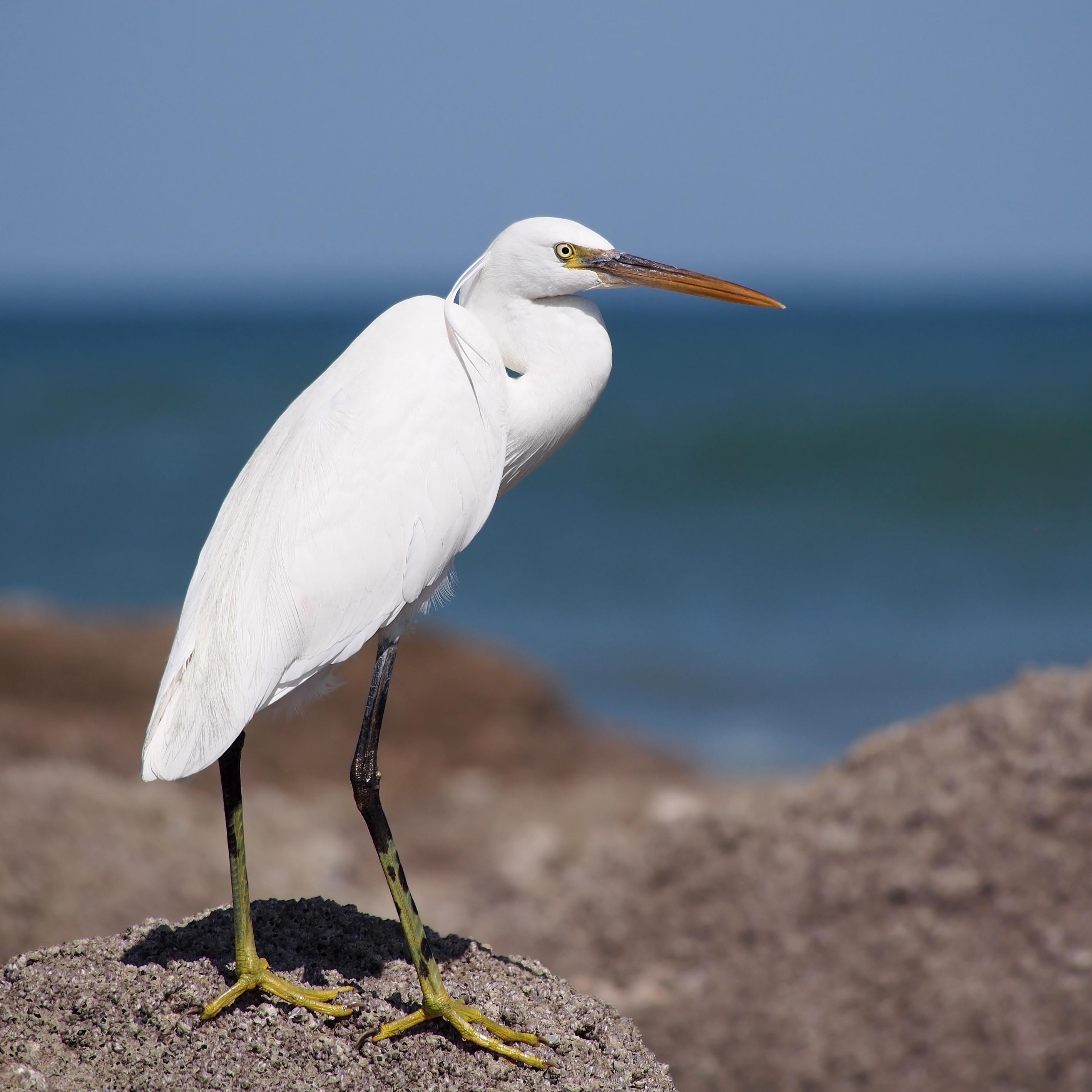 Western Reef Heron Egretta gularis, on rocks, nr Muscat, Oman